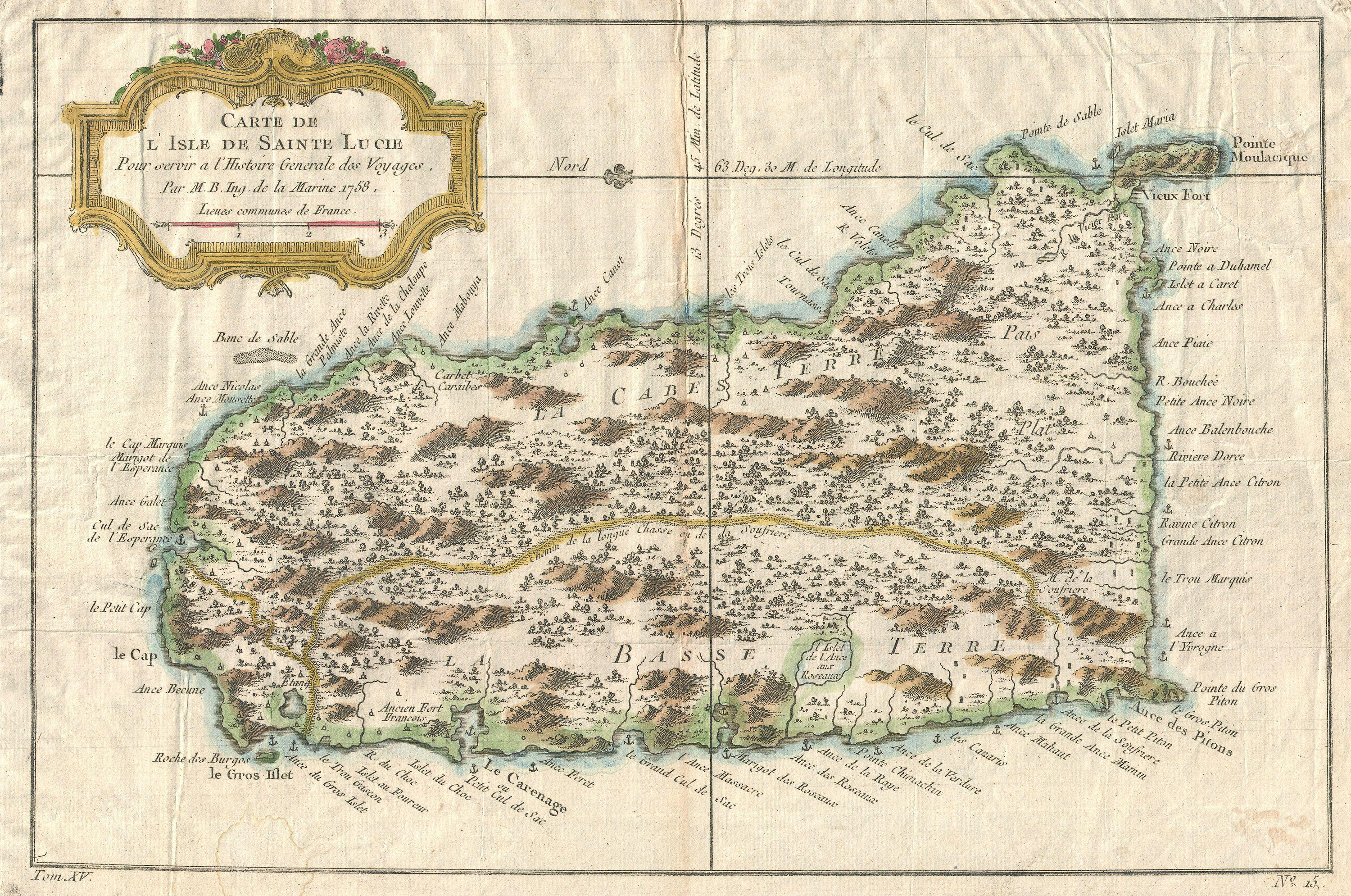 This beautiful little map depicts the Caribbean island of St. Lucia or St. Lucie. Shows the island in some detail showing the island's single road as well as various towns and anchorages. Topography drawn in profile. Some offshore features and undersea dangers such as the Banc de Sable are noted. Decorative baroque title cartouche in the upper left quadrant. This map was published in 1758 for Provost's L`Histoire Generale des Voyages .